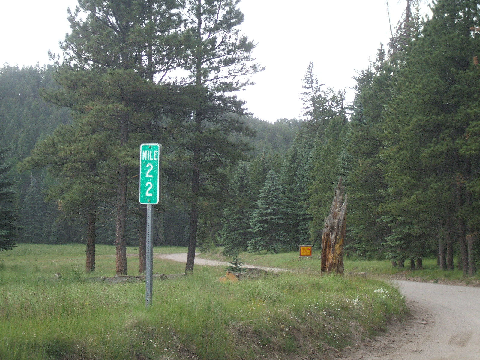 Looking west near Fenton Lake, 22 miles east of Cuba, New Mexico in the Santa Fe National Forest, on state highway 126.